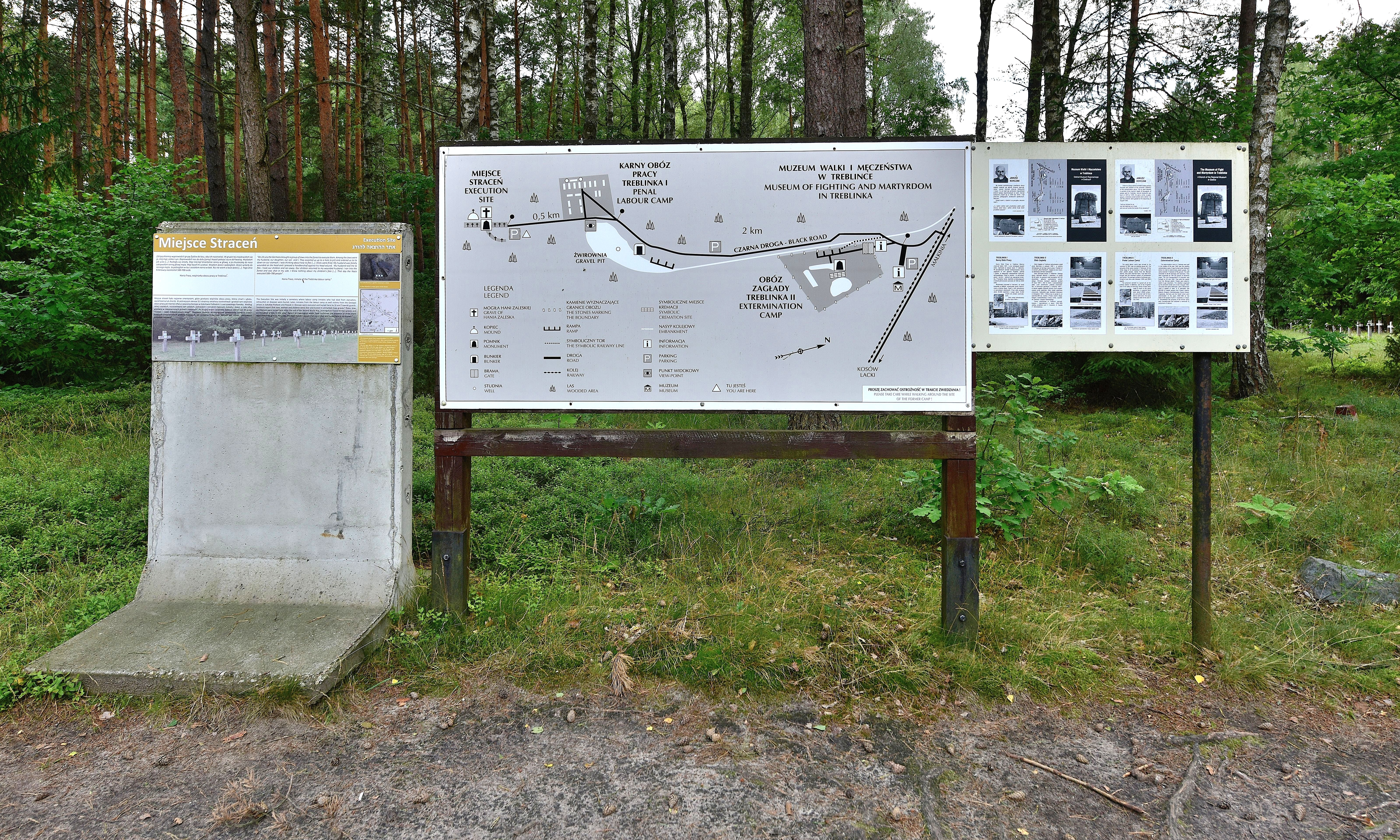 Treblinka execution place memorial - information boards